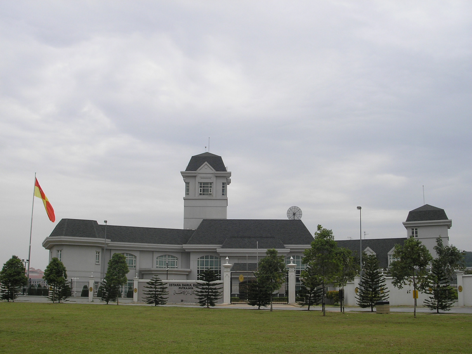 The Istana Darul Ehsan in Putrajaya, residence of the Sultan of Selangor.